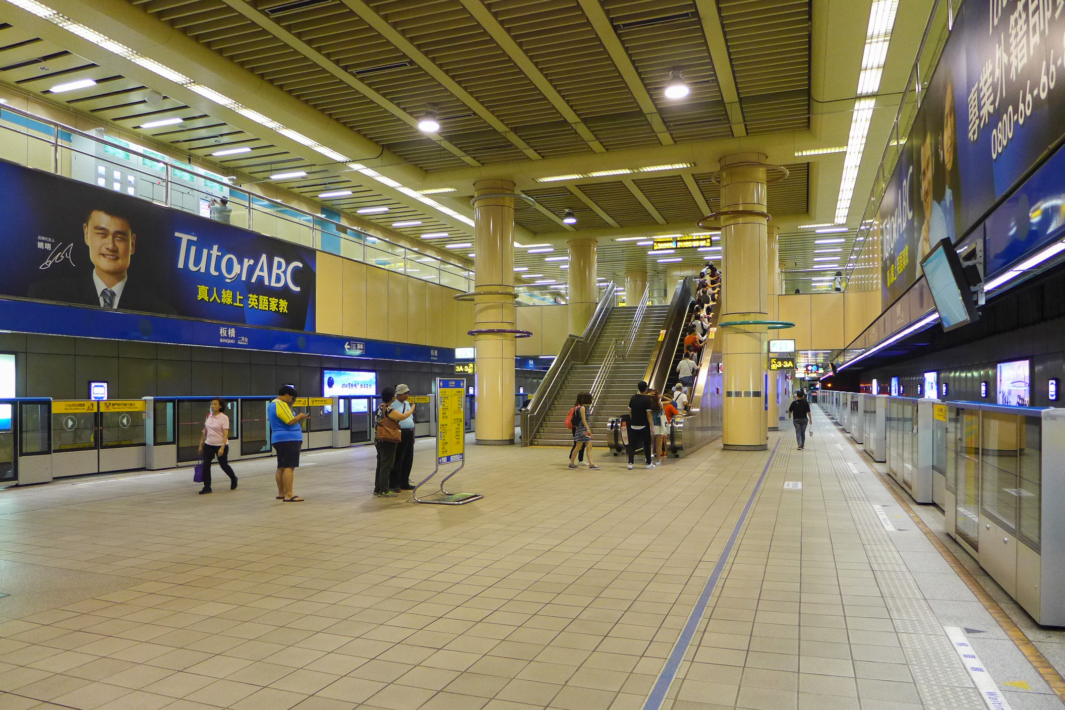 MRT Banquiao Station Platform